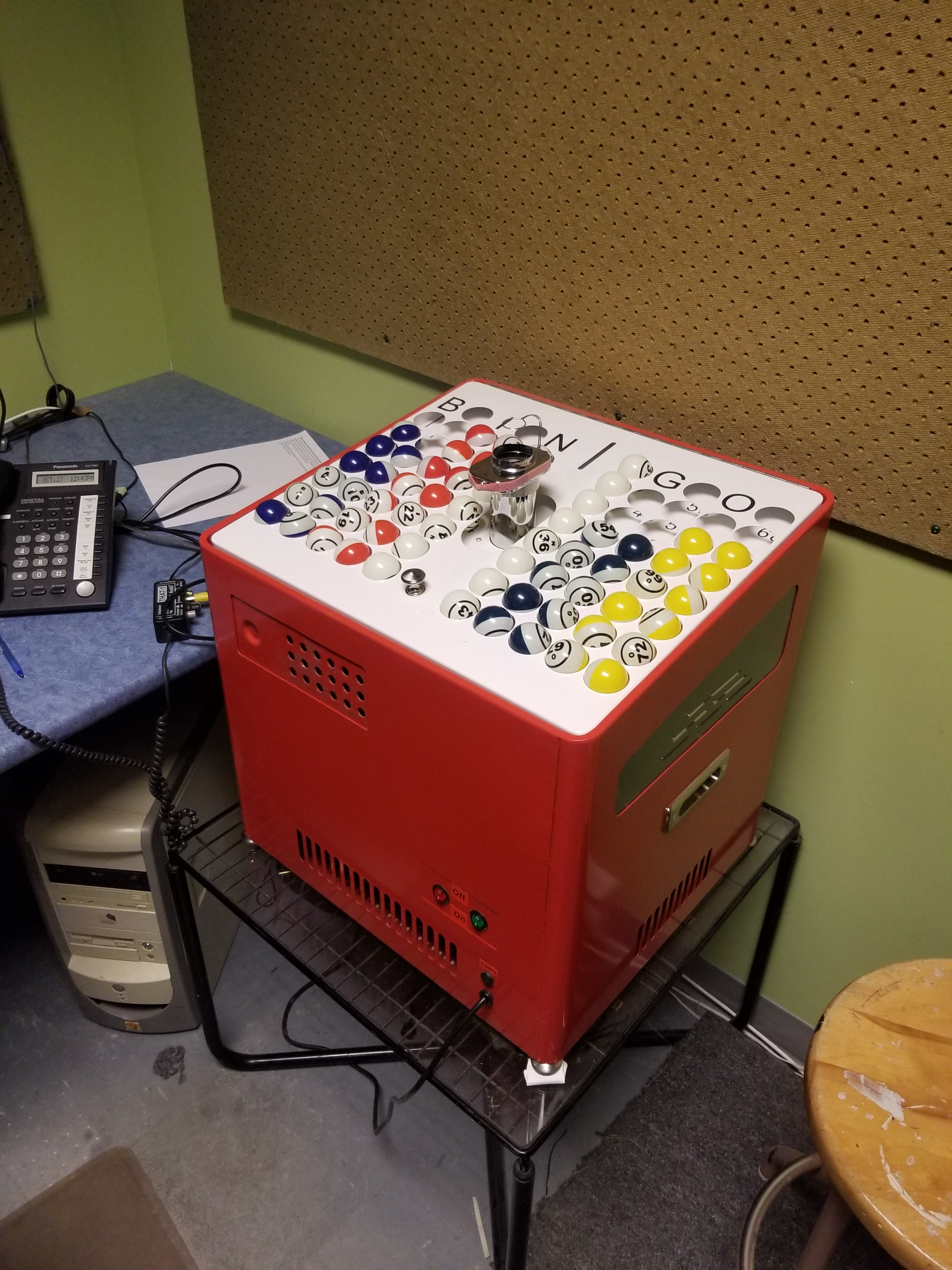 Le bingo est l'une des sources de financement des radios communautaires au Québec.